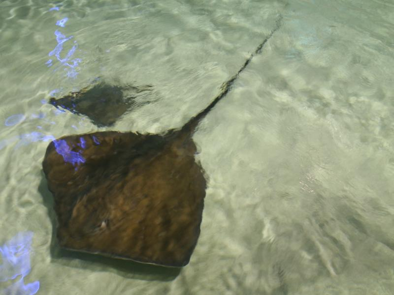 Roughtail stingray (Dasyatis centroura) at the National Aquarium, Baltimore, Maryland.